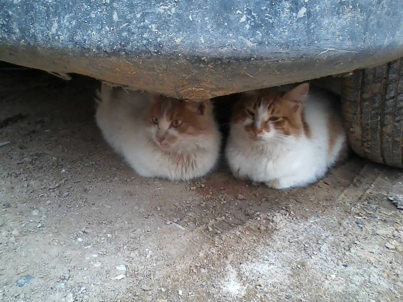 A picture of 2 cats under a car.